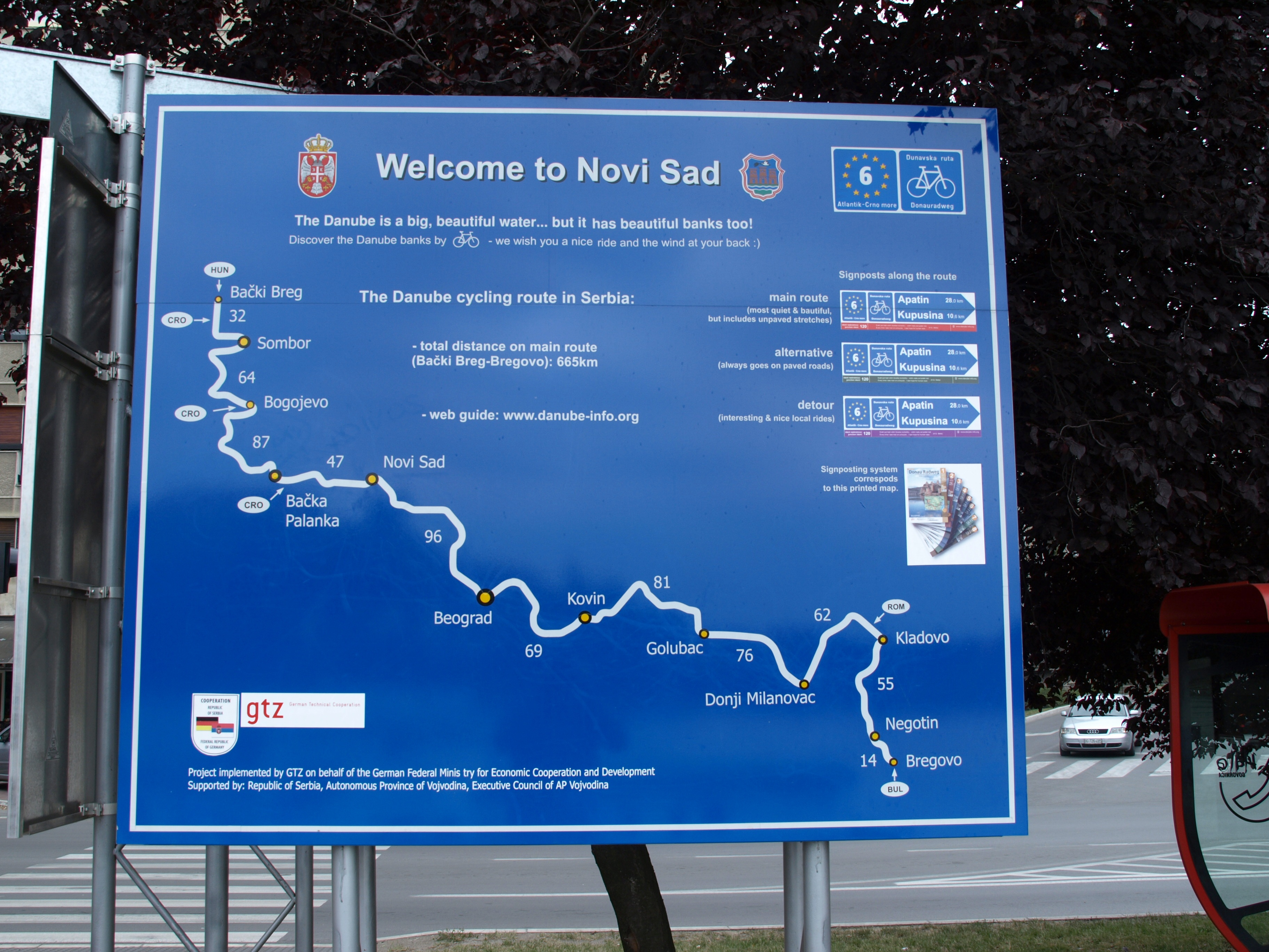 Map signpost of the Danube cycle route in Novi Sad, Serbia.